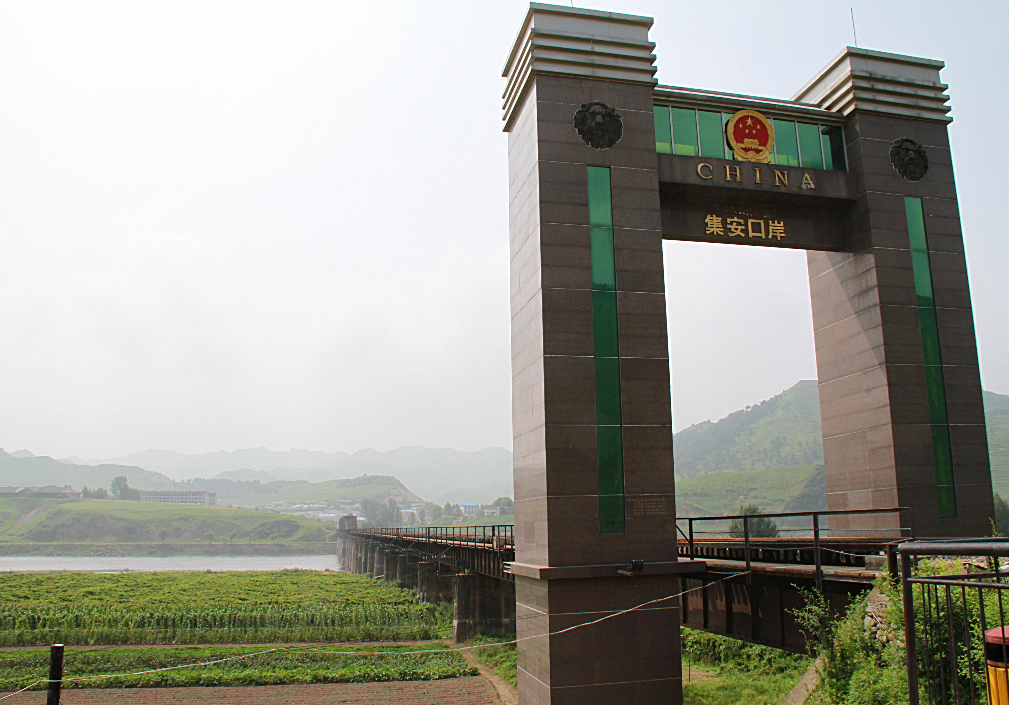 Photograph of the Ji'an Yalu River Border Railway Bridge between Ji'an, Jilin Province, China and Manp'o, Chagang Province, North Korea from the Chinese side."集安口岸" (Ji'an port) is wrote on the front of the bridge.